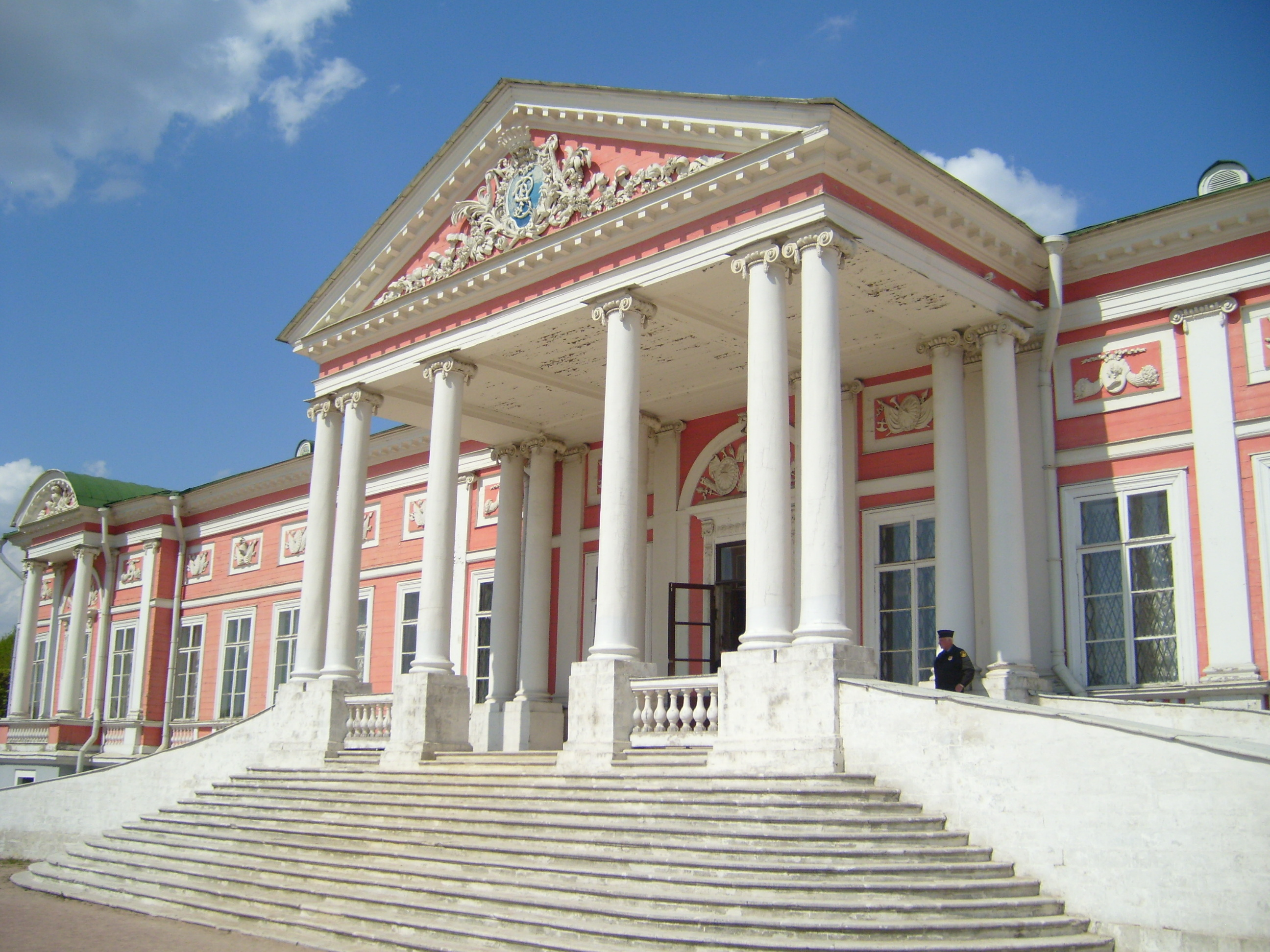 Facade of Kuskovo Palace, Moscow